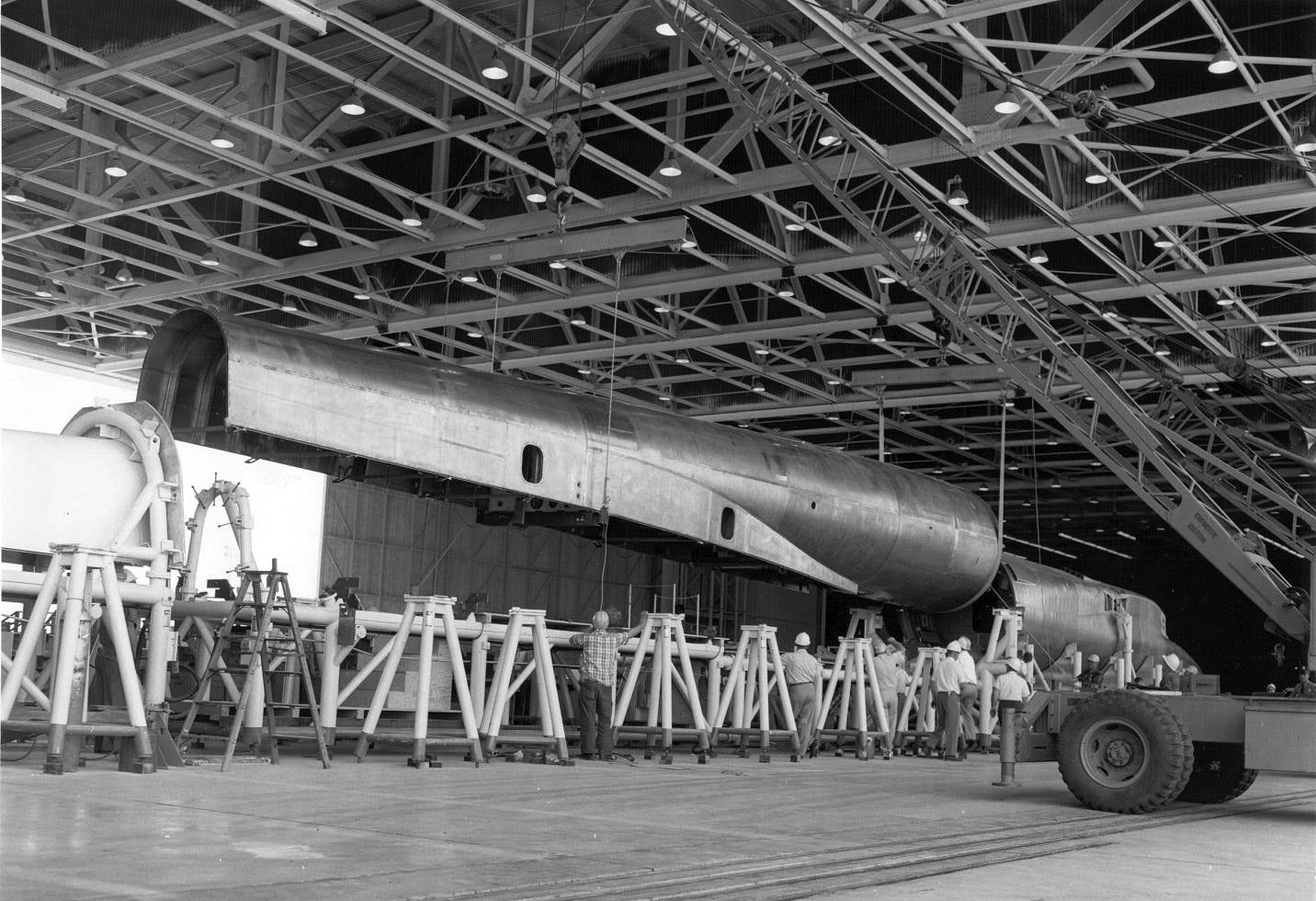 North American XB-70A Valkyrie forward fuselage assembly